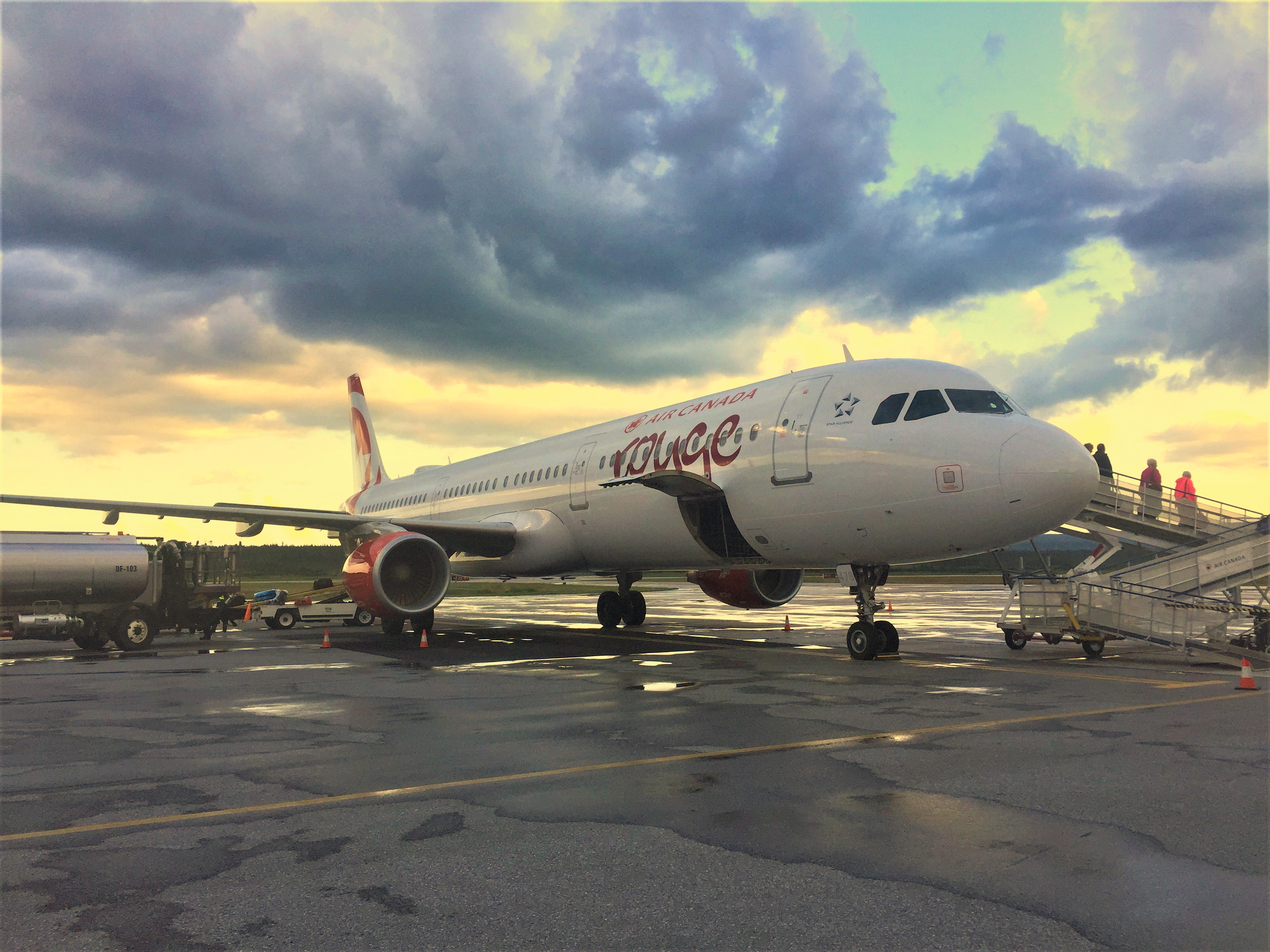 Air Canada Rouge A321 at Deer Lake Airport, Newfoundland, Canada